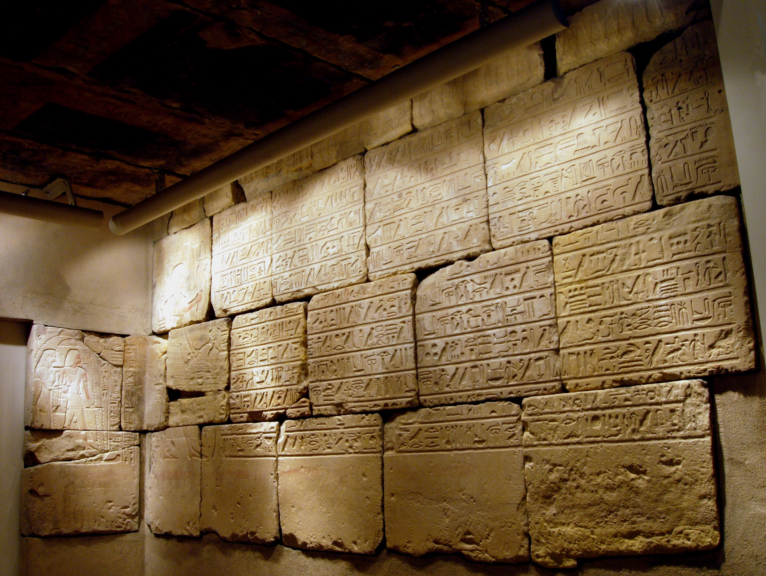 Relief, Burial chamber of Sobekmose